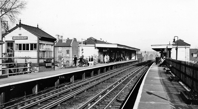 Brondesbury Station. View NE, towards Dalston Junction and Broad Street; ex-North London Rly. Broad Street - Dalston Junction - Willesden Junction - Richmond line: both an electrified suburban line and a major route for cross-London freight. (In the distance can be seen the overbridge carrying the Metropolitan and LNER (ex-Great Central) six lines into Baker Street and Marylebone).